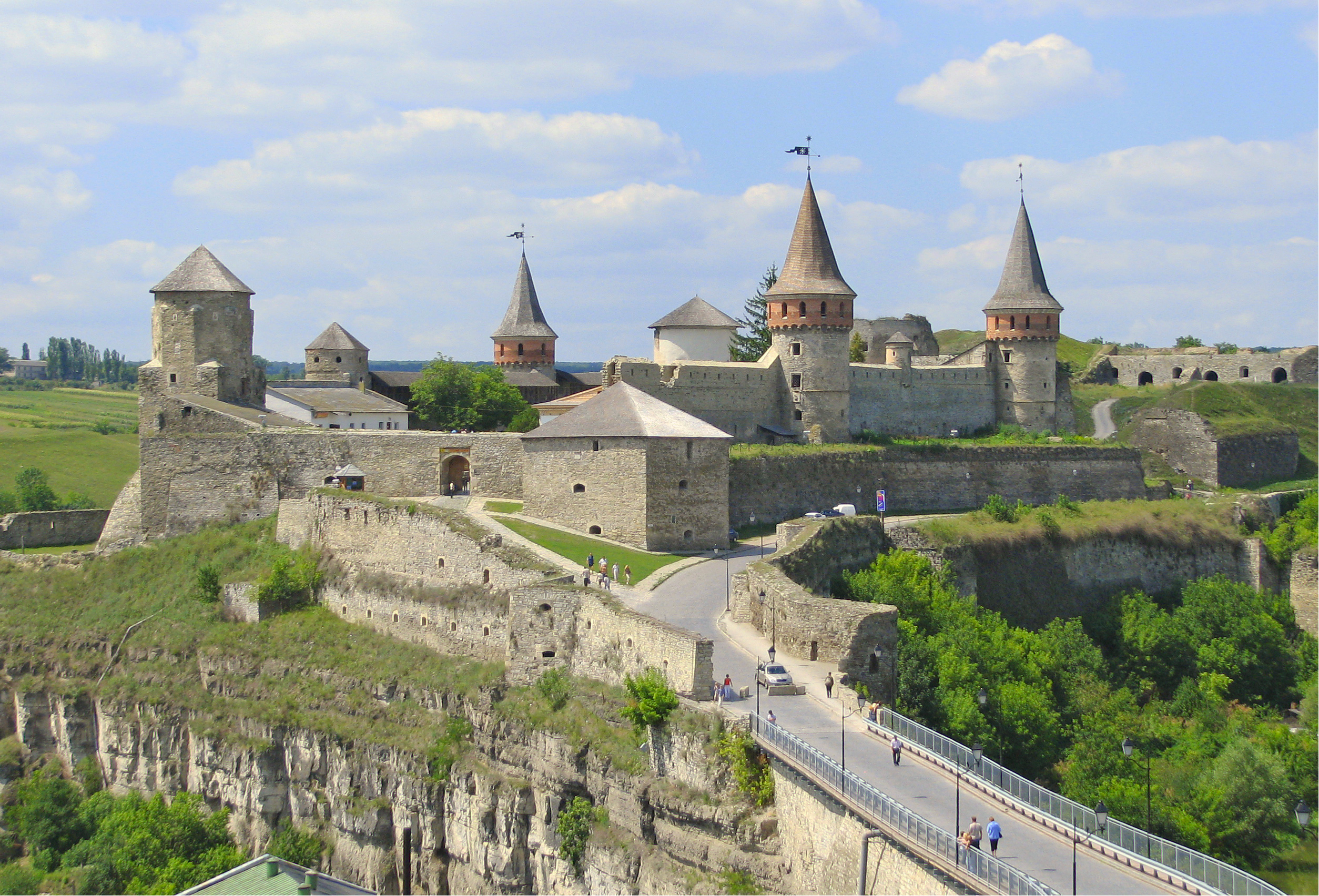 Kamieniec-Podolski Castle (Ukraine).